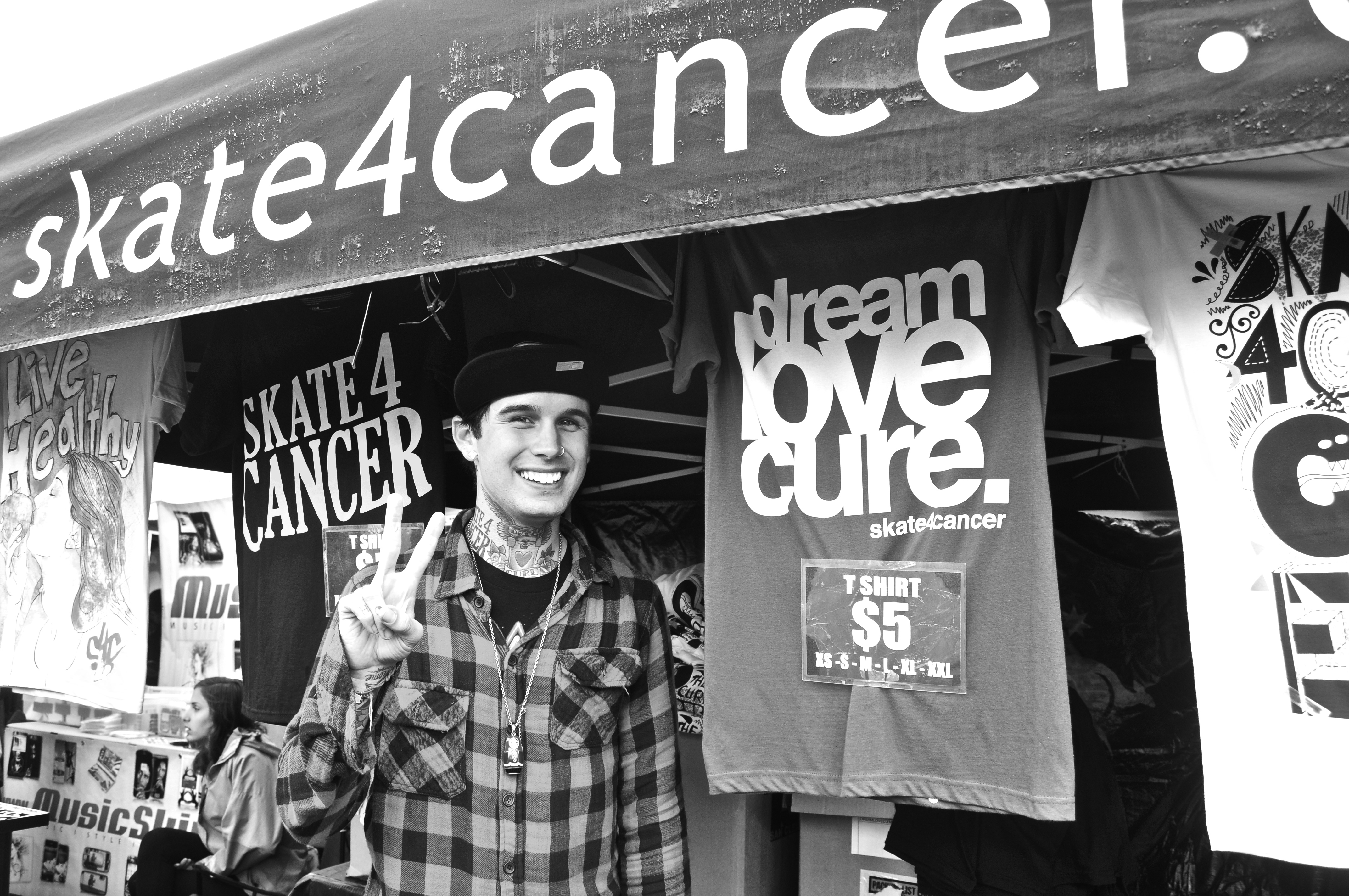 Rob Dyer is the founder of the charity "Skate 4 Cancer". Original caption: Skate 4 Cancer is an absolutely amazing cause that seeks to educate about cancer prevention. "The cure is knowledge." If you have no idea who Rob is or what Skate 4 Cancer is, go check out and read the story. If you see Rob at Warped Tour go say hi and maybe buy a shirt! Dream. Love. Cure. Skate 4 Cancer.